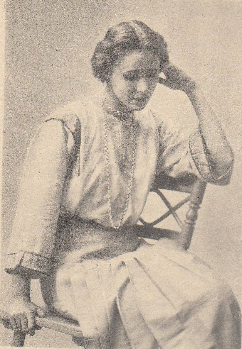 Grete Wiesenthal: From the time of my first dance, from the book Der Aufstieg (1919)